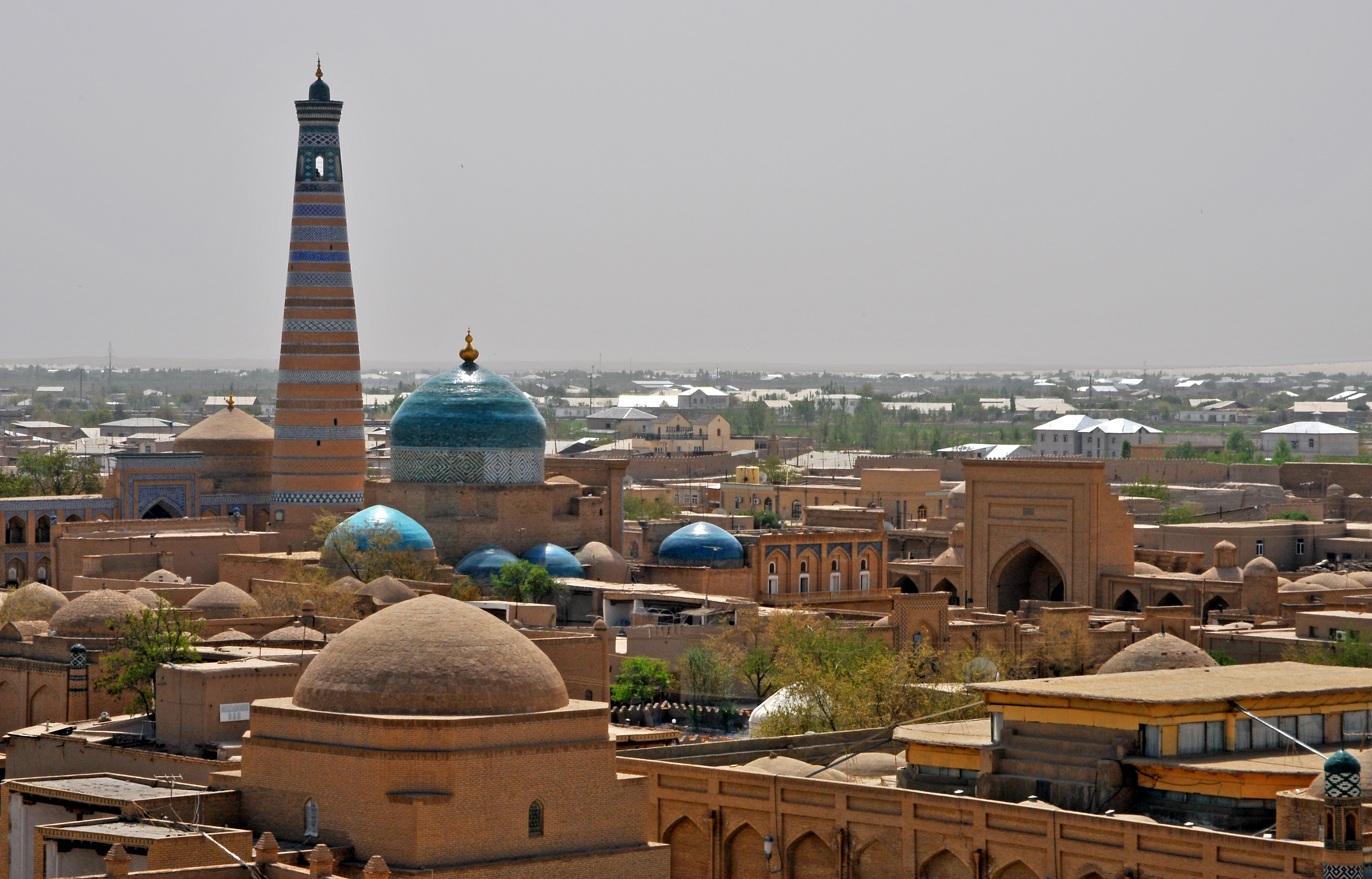 View of the old city [Itchan Kala] from the citadel [Konya Ark] rooftop. Khiva, Uzbekistan